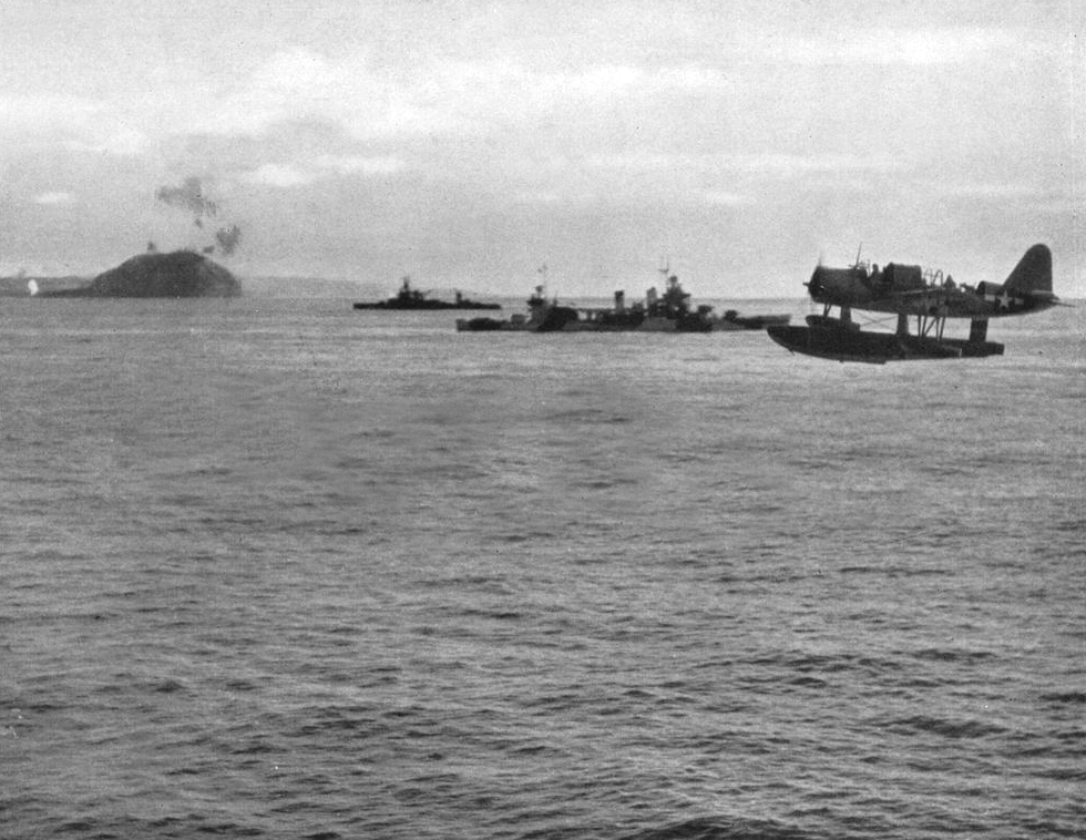 The U.S. Navy heavy cruiser USS Tuscaloosa (CA-37) and the battleship USS Arkansas (BB-33) bombarding Iwo Jima on 17 February 1945, as seen from USS Texas (BB-35). Tuscaloosa wears Camouflage Measure 31A, Design 13D, while Arkansas wears Camouflage Measure 21. Note the Vought OS2U Kingfisher in the foreground.